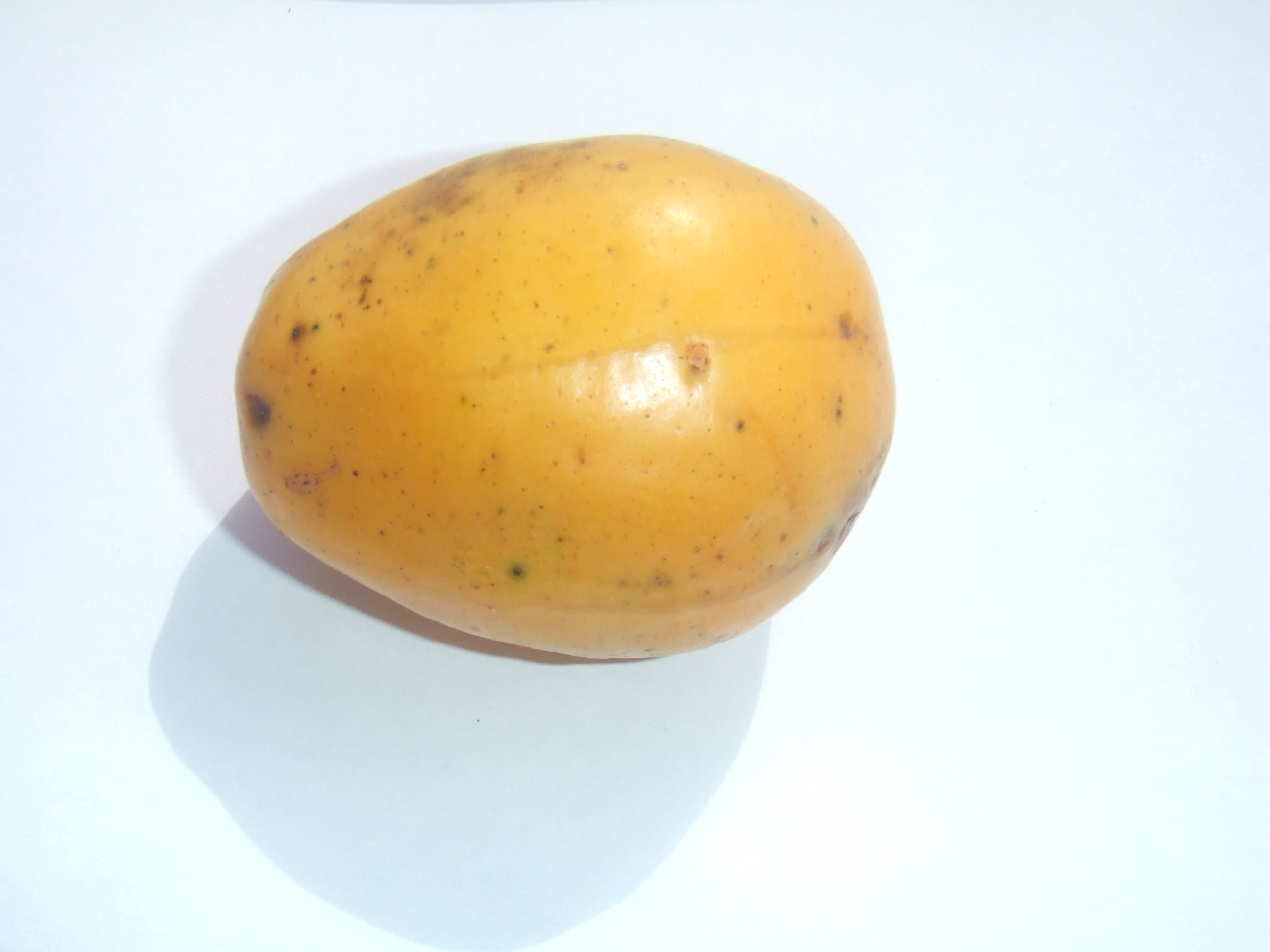 Spondias dulcis, bought at the Binnenrotte market in Rotterdam, The Netherlands